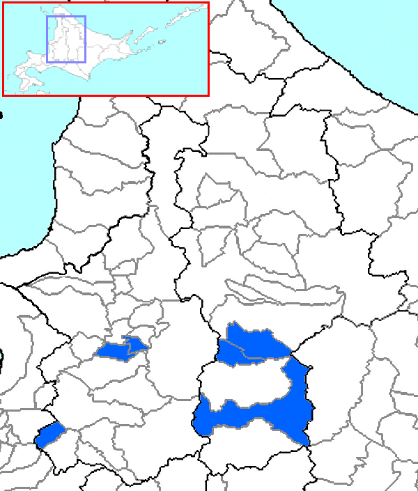 The location of Sorachi District in Sorachi and Kamikawa Subprefecture, Hokkaido Prefecture, Japan.